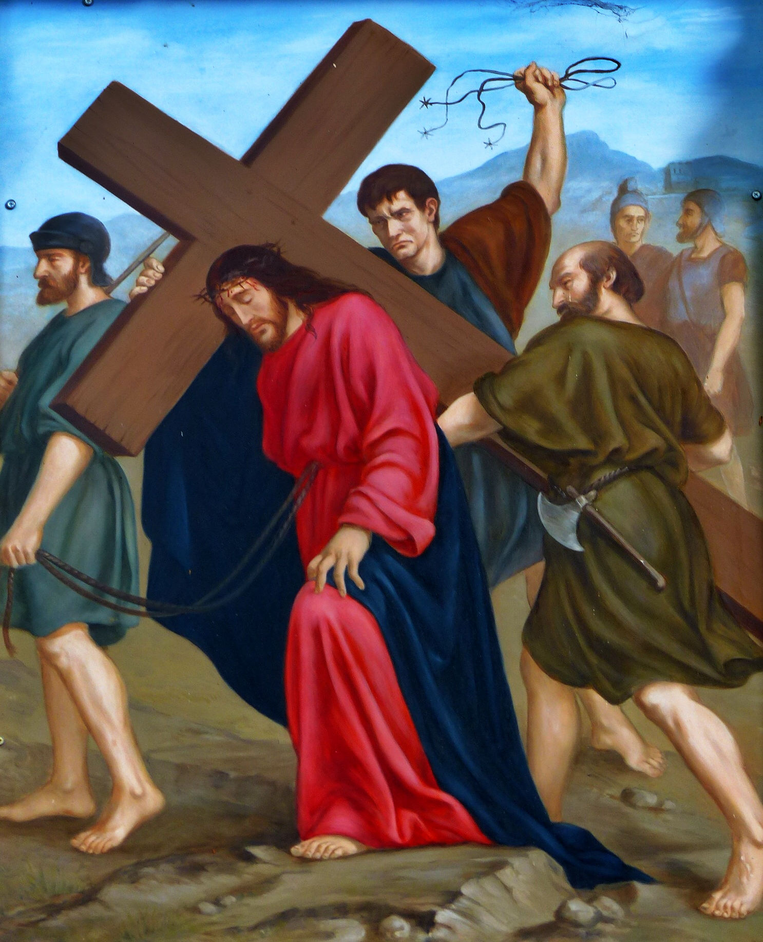 Station 5: Simon of Cyrene carries the cross